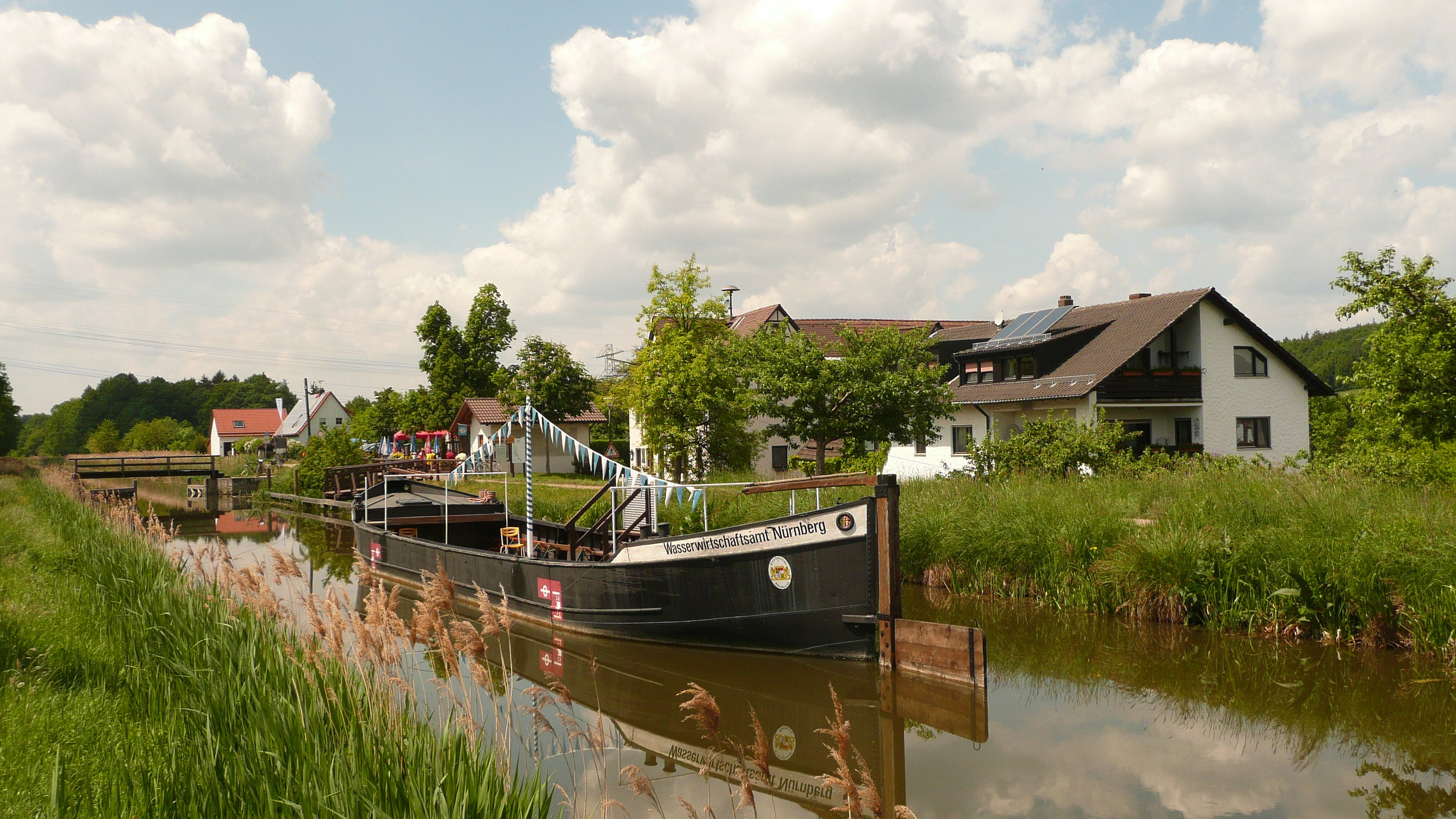 The tow-boat Elfriede on its moorage on the Ludwig-Donau-Main channel near Schwarzenbach.